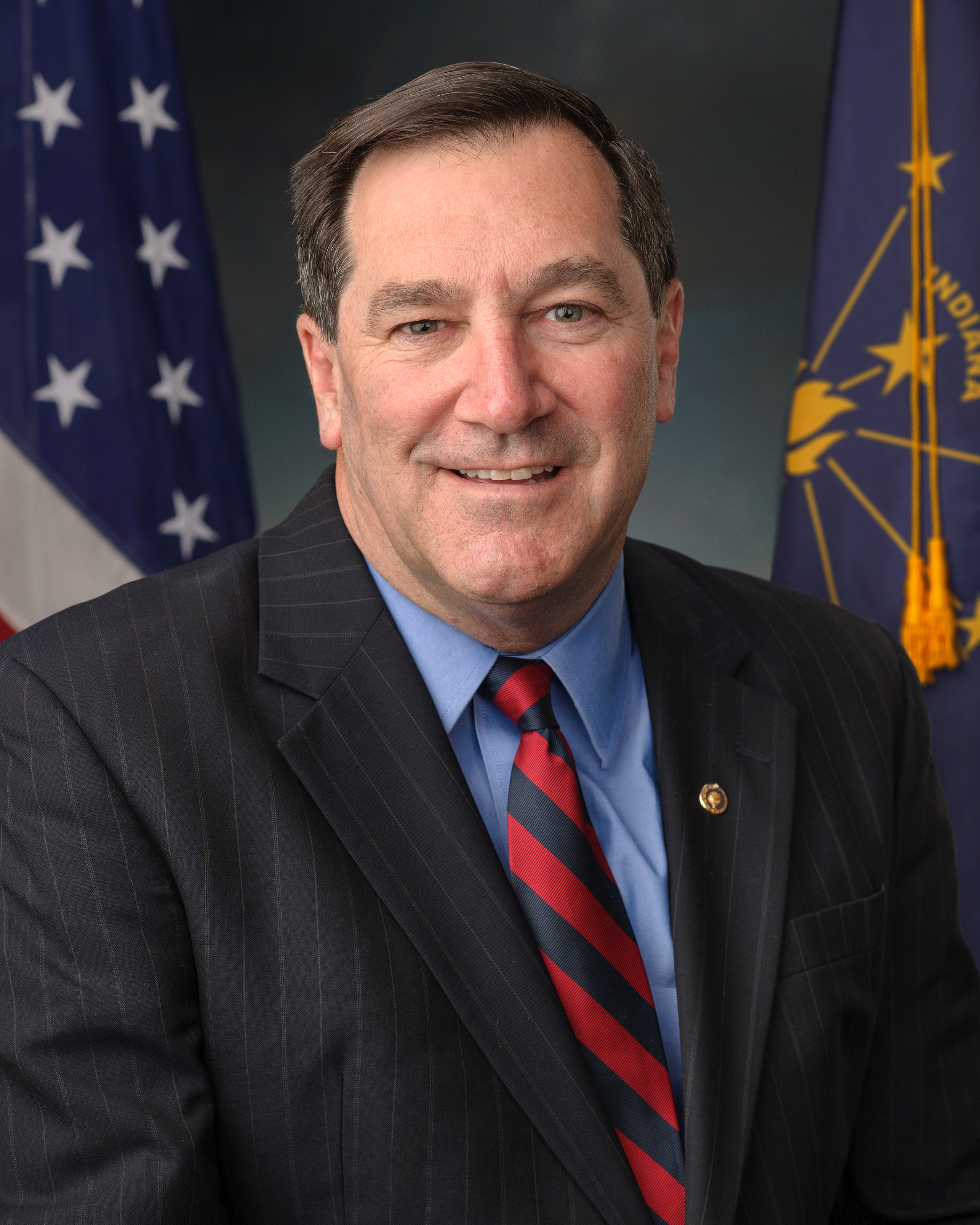 Official portrait of U.S. Senator Joe Donnelly (D-IN).